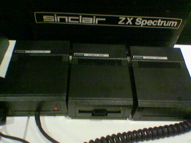 Timex FDD (left to right: Timex Controller, Timex Floppy Disk, Timex Power Supply). Photo taken by uploader.